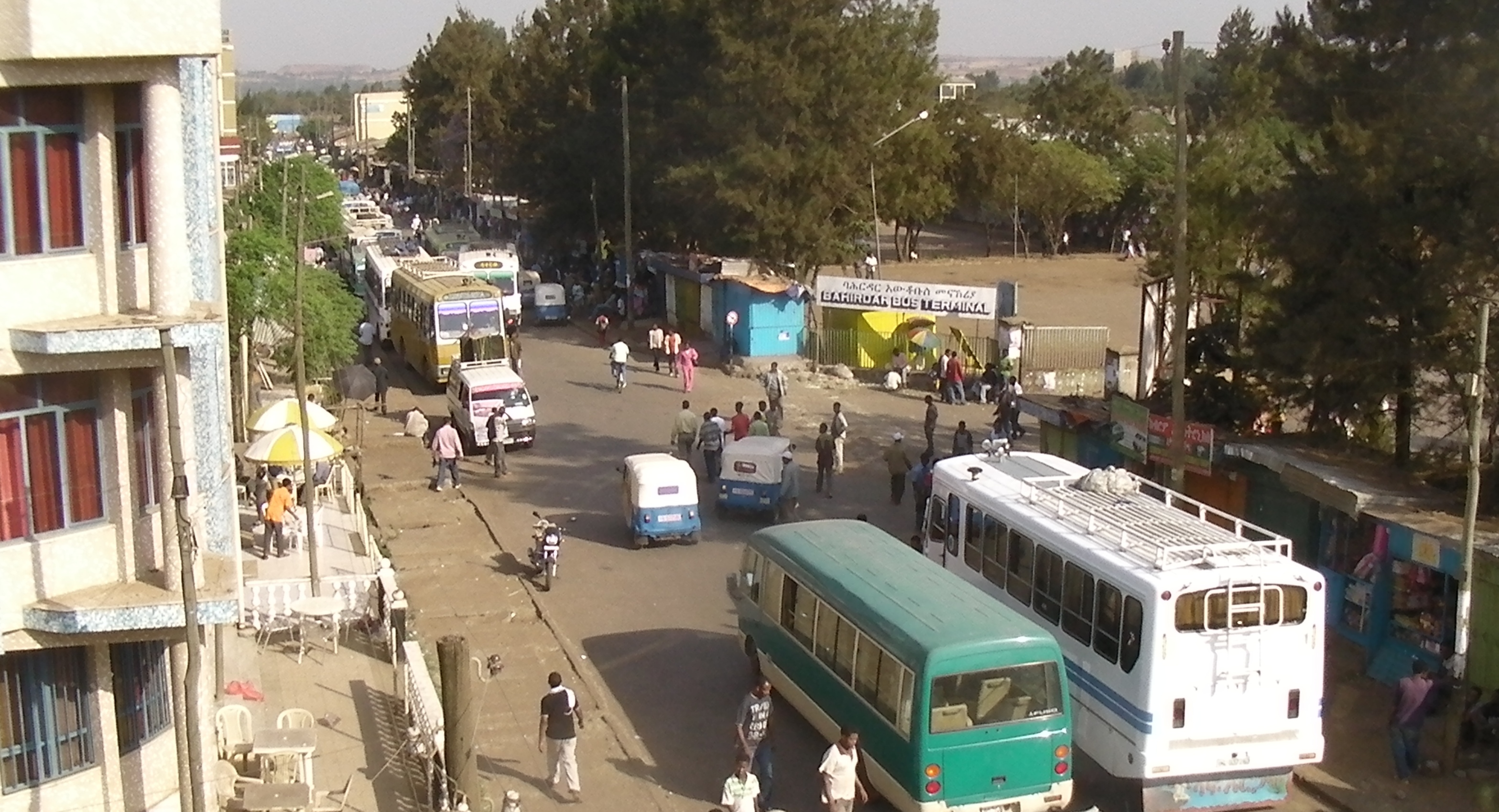 Looking southeast at the vehicle entrance to the bus terminal area in Bahir Dar, Ethiopia